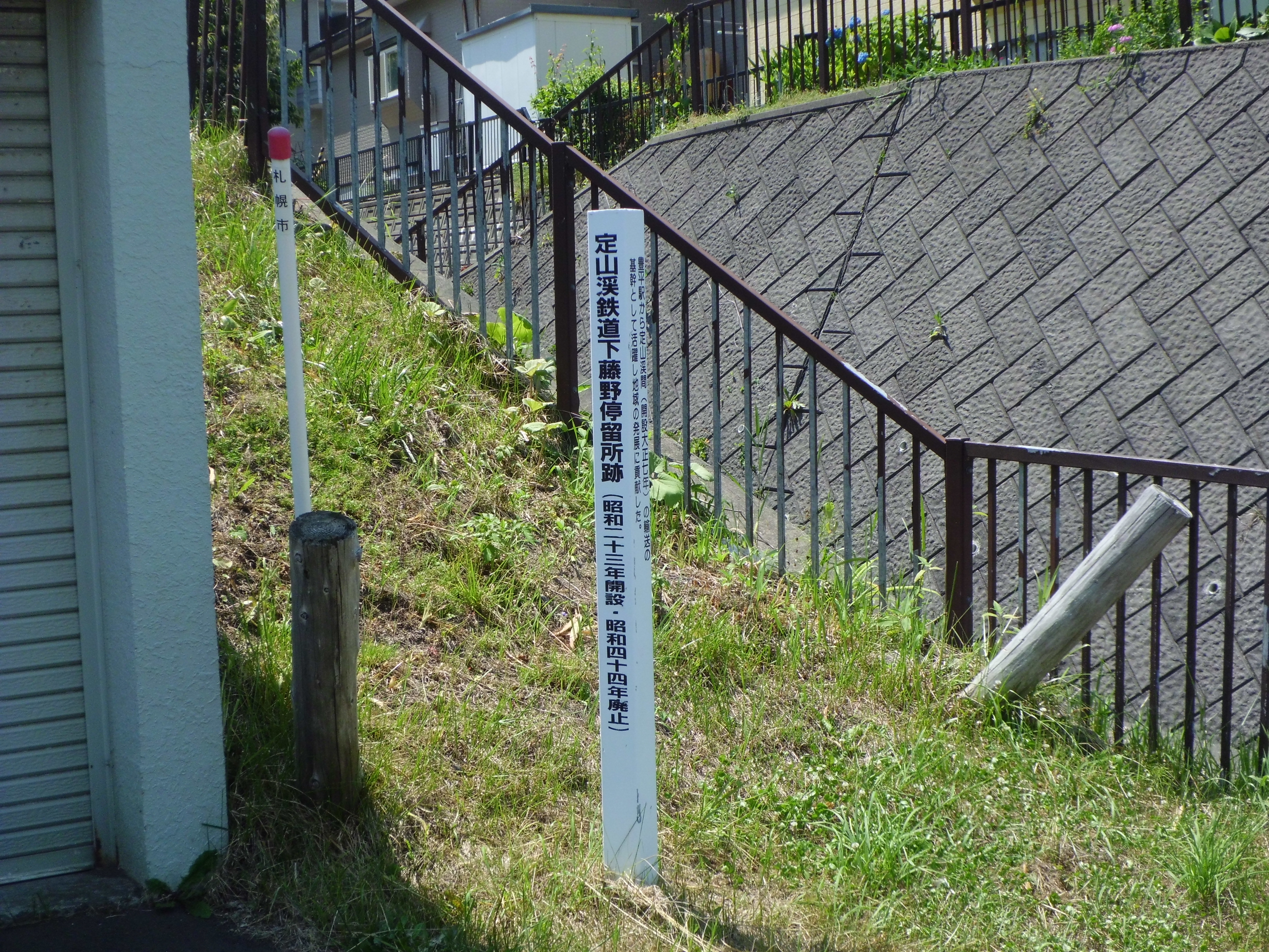 Remains of Shimo-Fujino Station